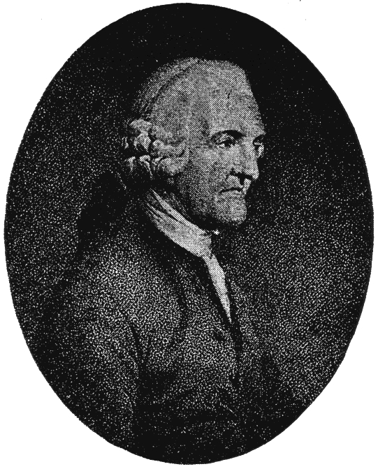 Edmond Hoyle